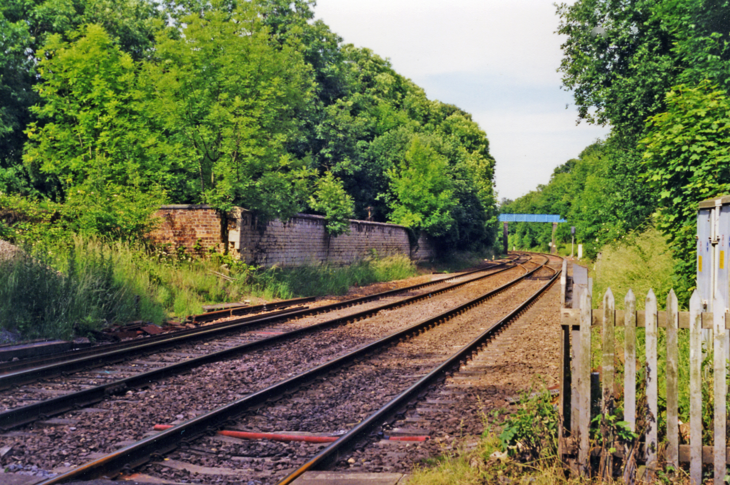 Site of former Ketton & Collyweston station, 1998. View SW, towards Manton, Melton Mowbray etc.: ex-Midland Melton Mowbray - Manton - Stamford - Peterborough secondary main line. The line remains active, but this station was closed 6/6/66.